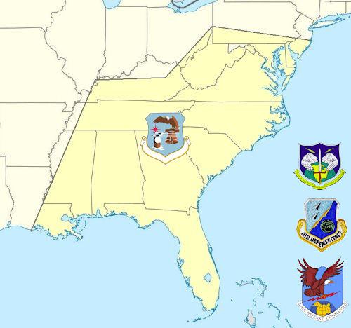 Map of 20th Air Division/NORAD Region AOR 1966-1967